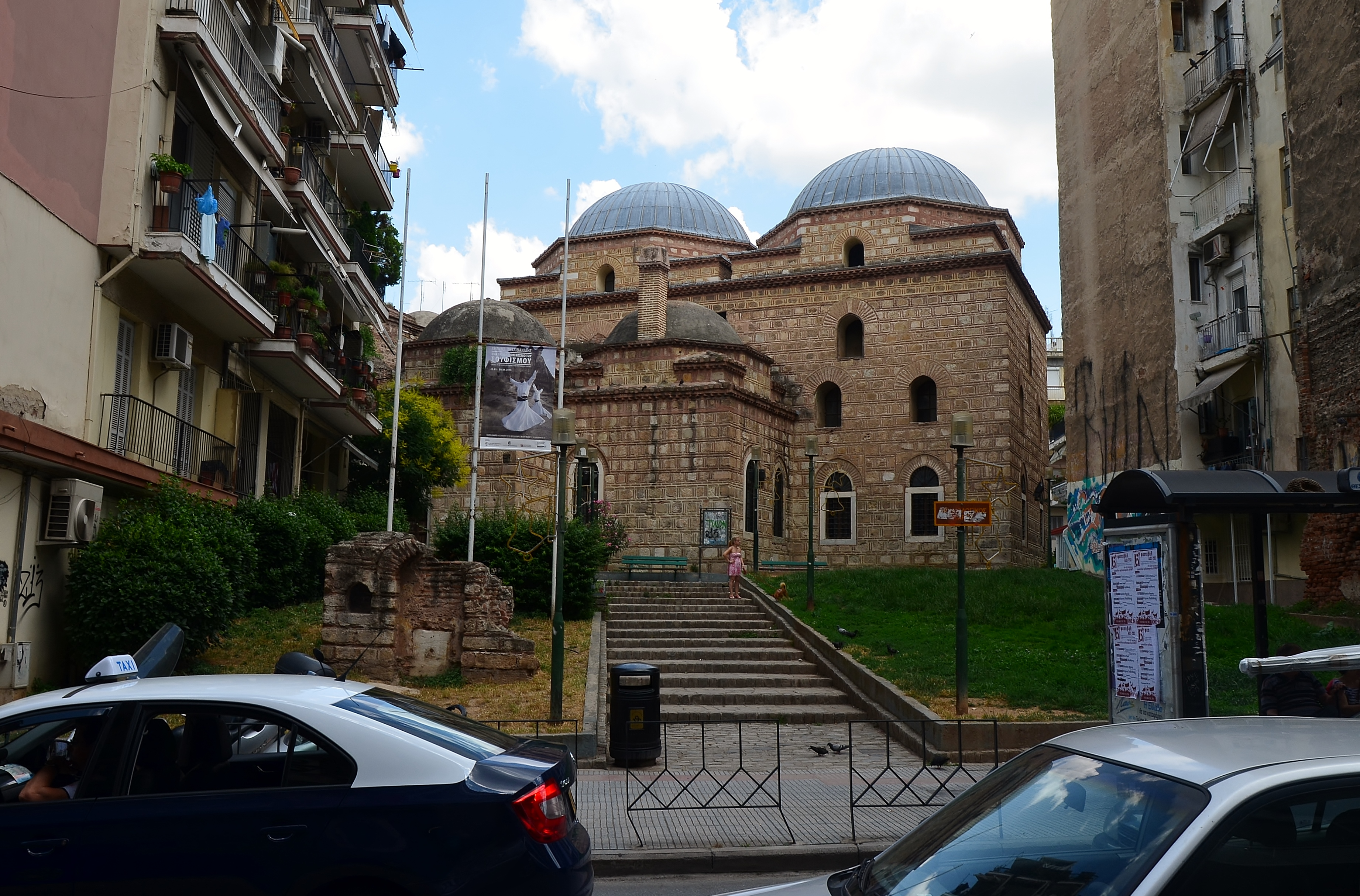 Alatza Imaret in Thessaloniki